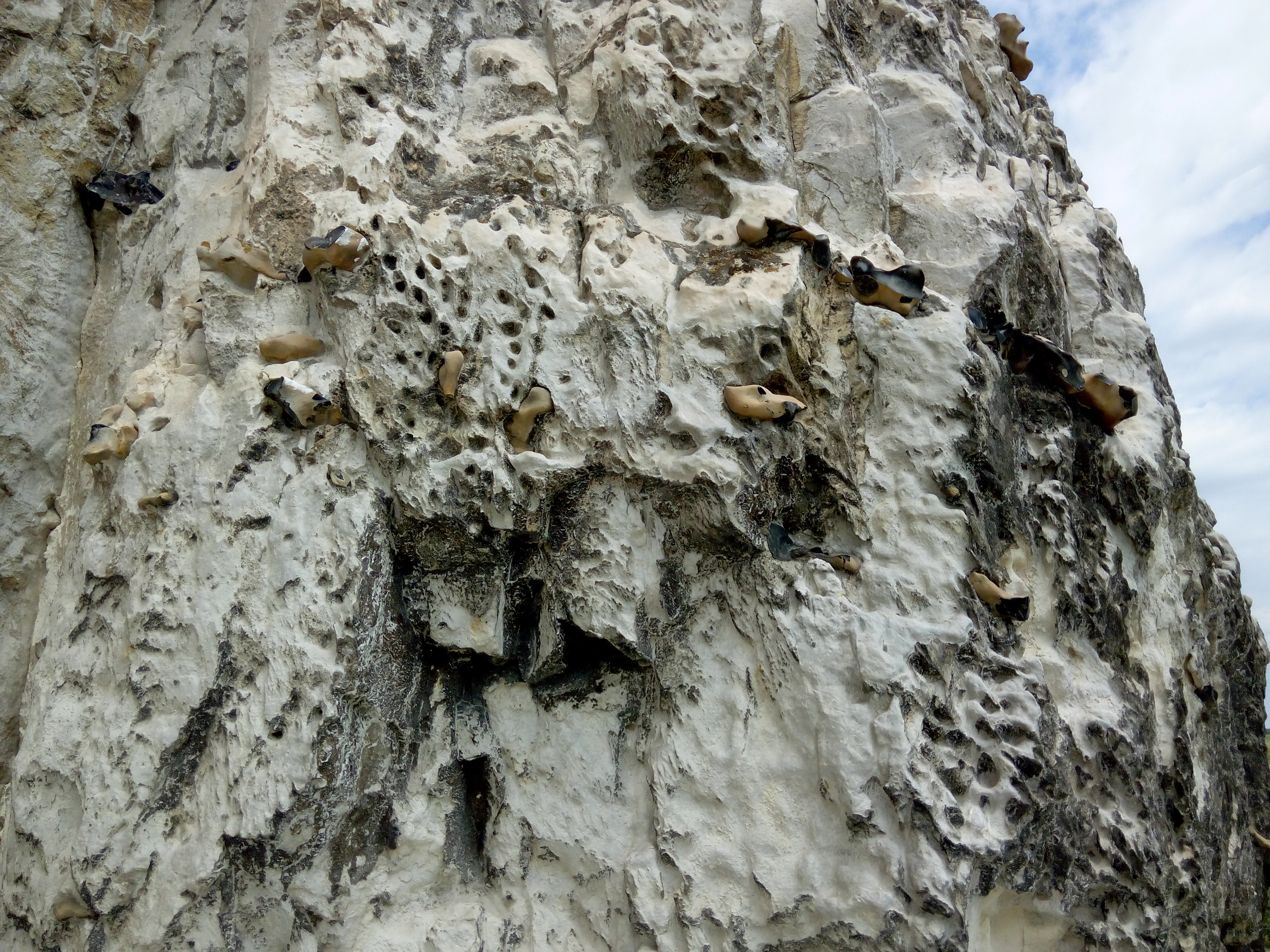 Silica concretions in the rocky outcrop of the upper chalk at Bilokuzmynivka, Ukraine